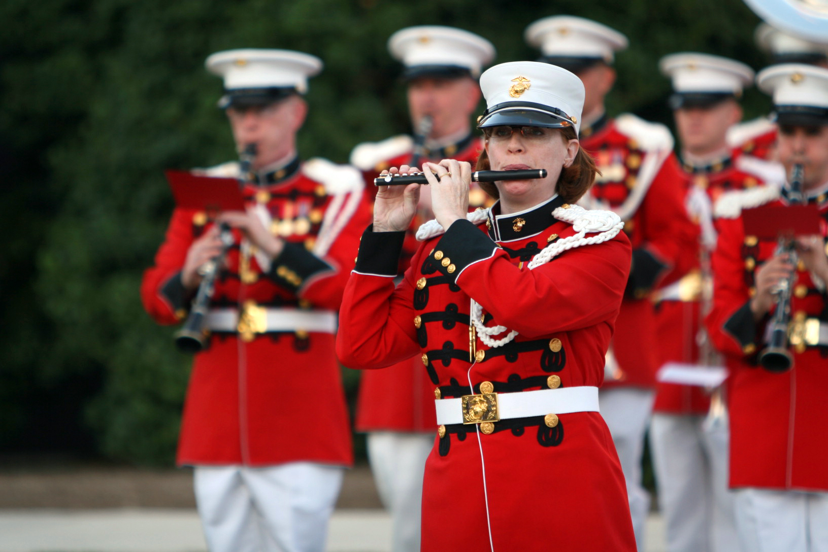 A member of "The President's Own" United States Marine Band, MGySgt Rugolo, plays the piccolo during a parade at Marine Barracks Washington. The Marine Band, founded in 1798, is the oldest continuously active professional musical organization in the country. (U.S. Marine Corps photo by Lance Cpl. Chris Dobbs/Released)